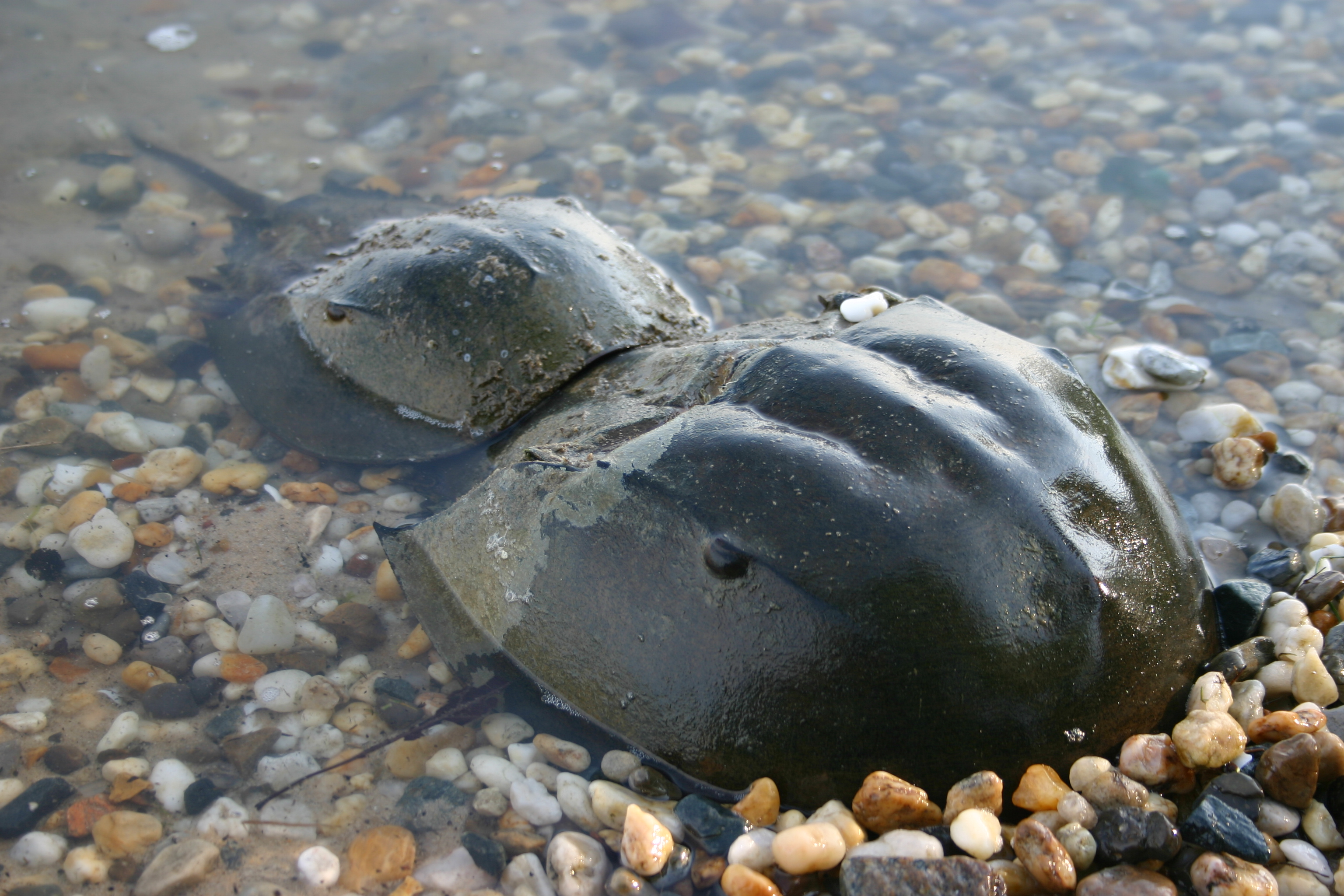 Horse Shoe Crabs Mating, Chessapeake Bay St. Michaels, Summer 2006, Brian Gratwicke